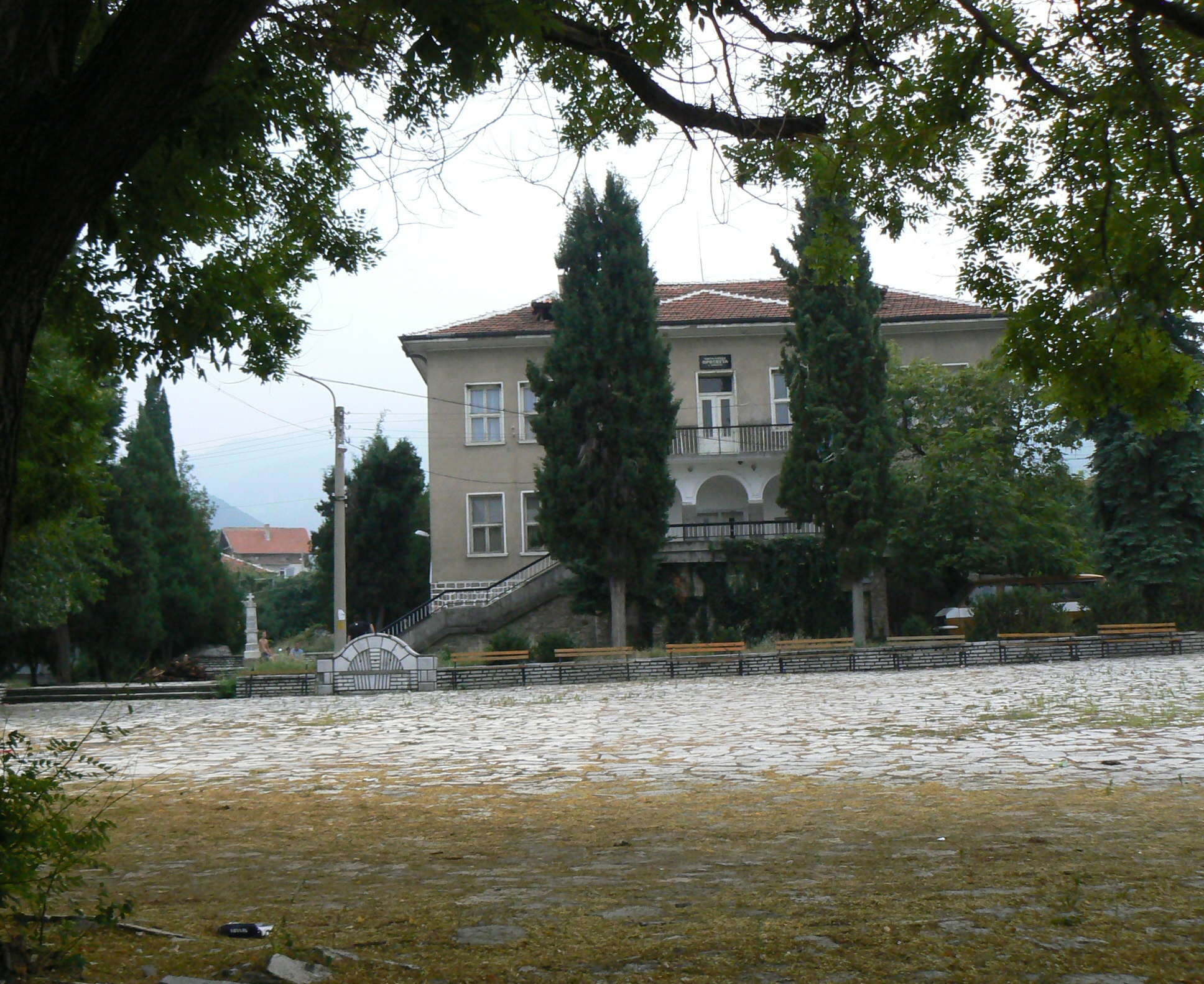 Library "Prosveta" in the centre of village Tsruncha, district Pazardjik, Bulgaria